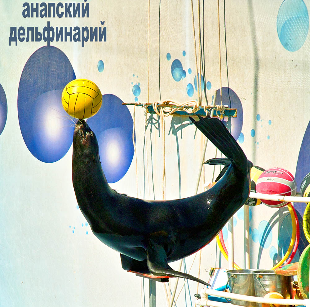 seal with ball